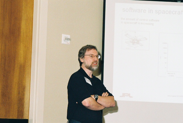 FLoC2006: Gerard J. Holzmann predicts the growth of software systems on spacecraft and the imperative to have high-reliability, safe software systems